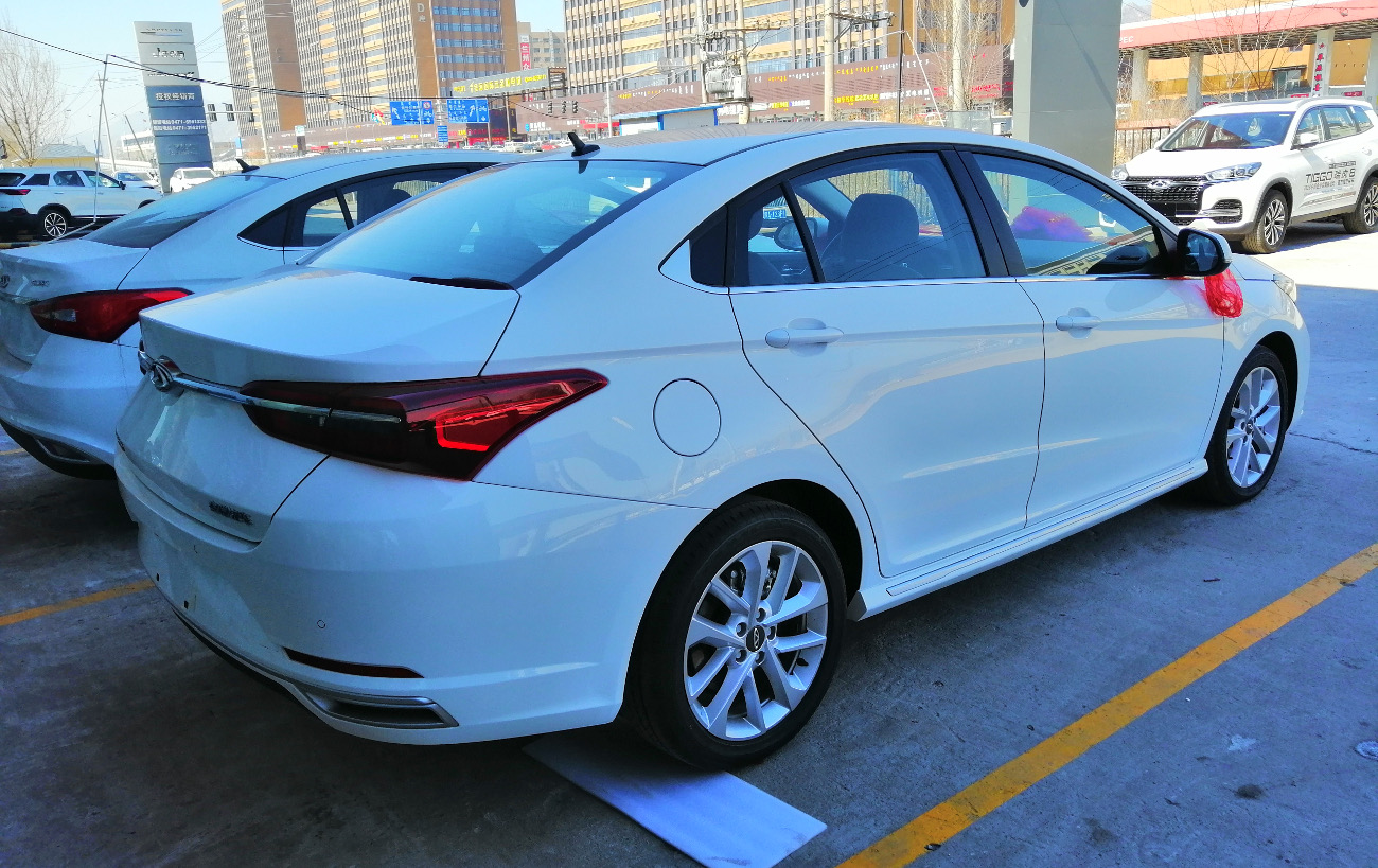 Chery Arrizo GX photographed in Hohhot, Inner Mongolia autonomous region, China.